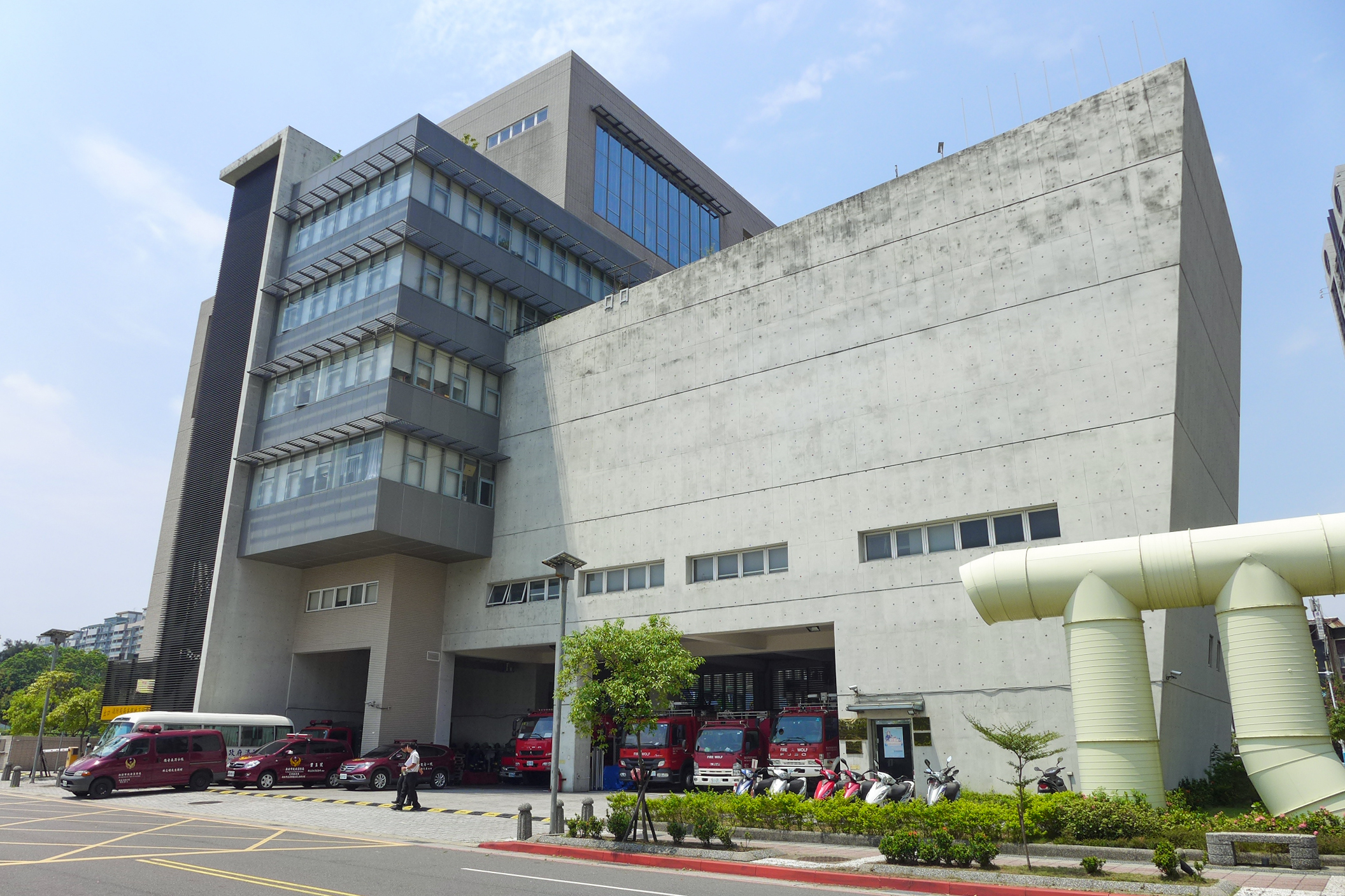 Headquarters of Fire Department, New Taipei City Government. Address : No.15, Section 2, Nanya South Road, Banqiao District, New Taipei City. Taken on Golf Road, Banqiao District.